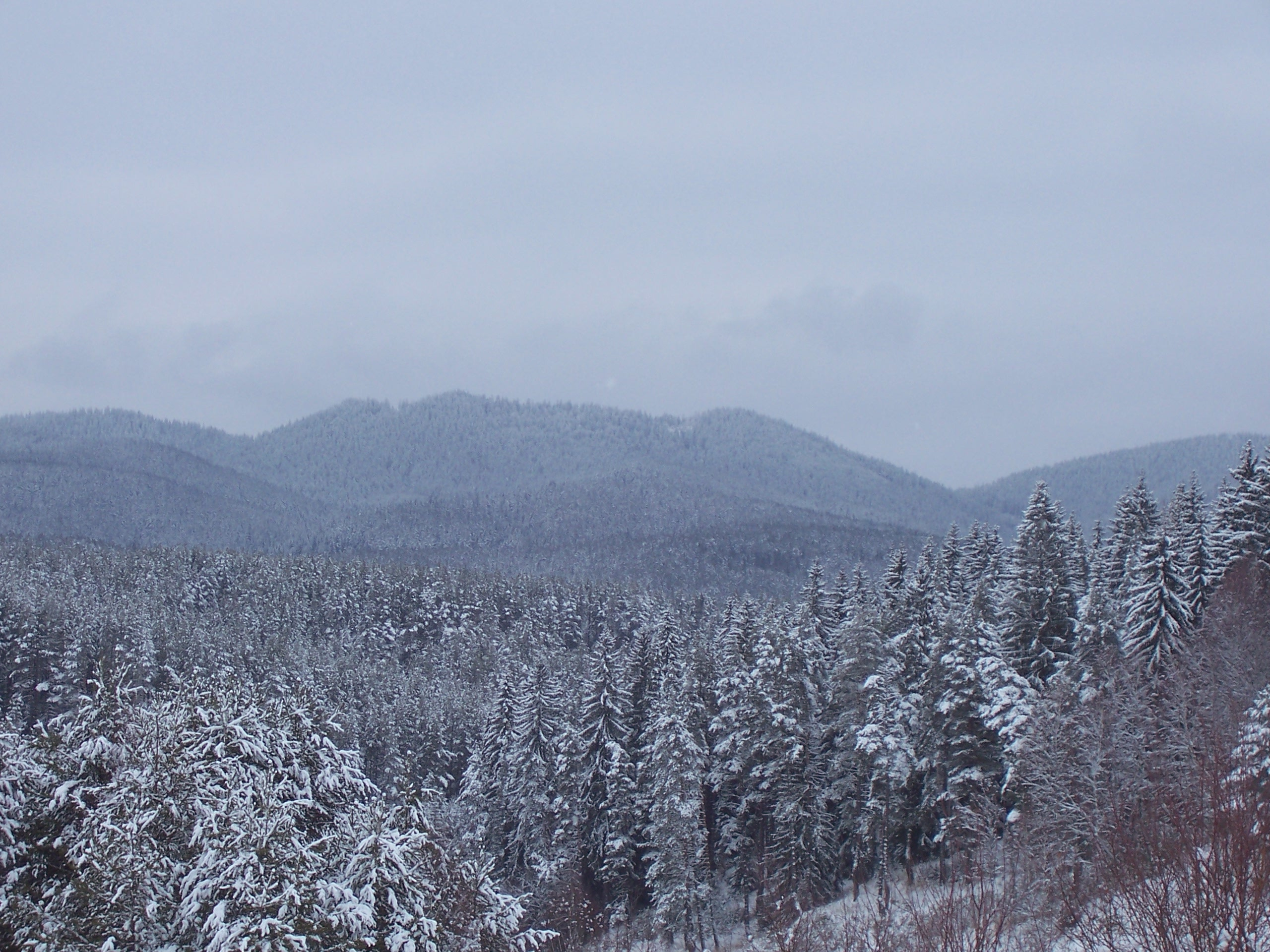 Chardzhik Peak.